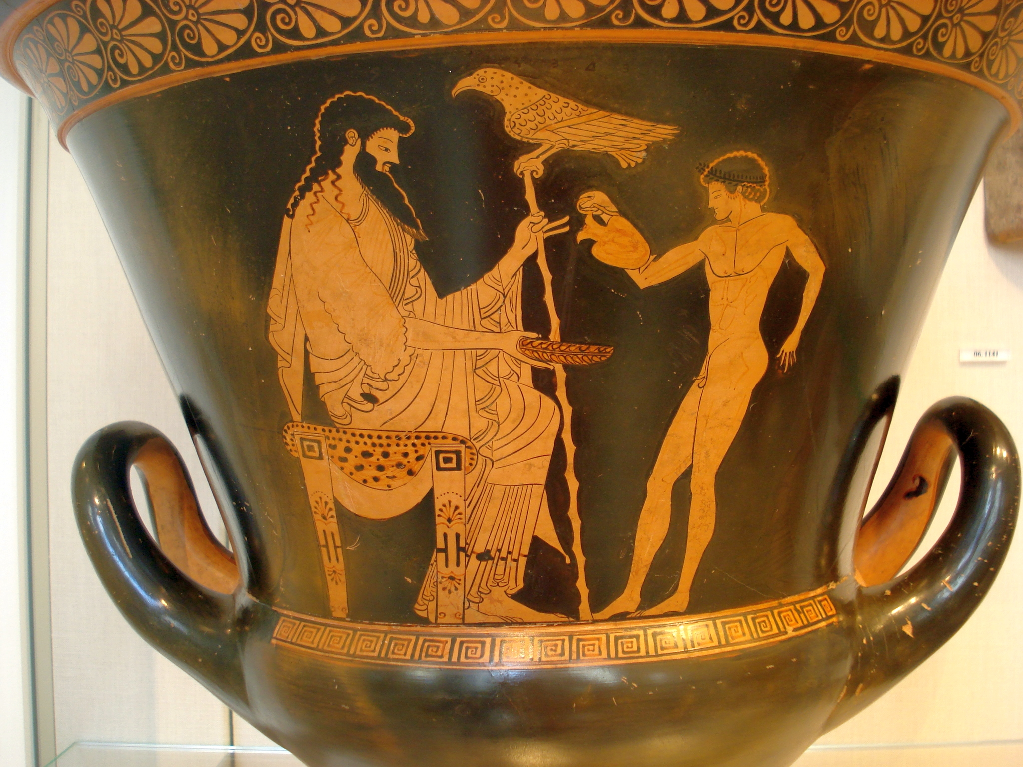 Ganymede pouring Zeus a libation. Attic red figure calyx krater by the Eucharides Painter, c. 490-480 BC. Metropolitan Museum of Art (New York), Levy-White Collection, L.1999.10.14.